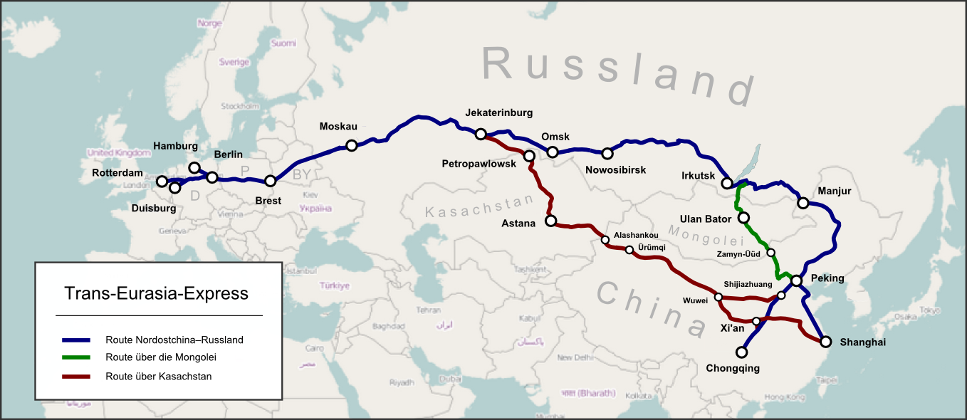 Map of the routes used by Trans-Eurasia Logistics